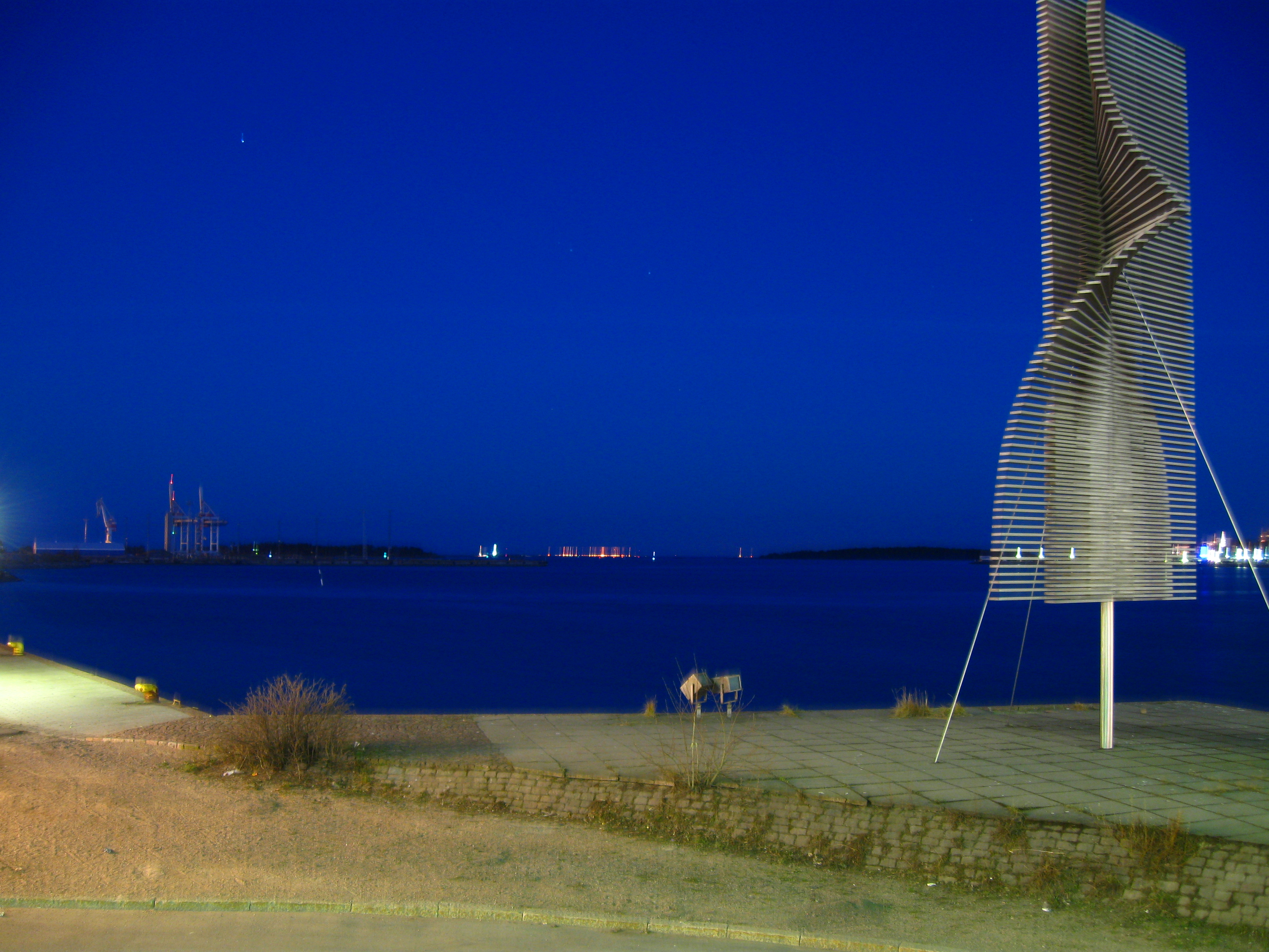 Lights of Tallinn, Estonia, can be seen in Helsinki, Finland.